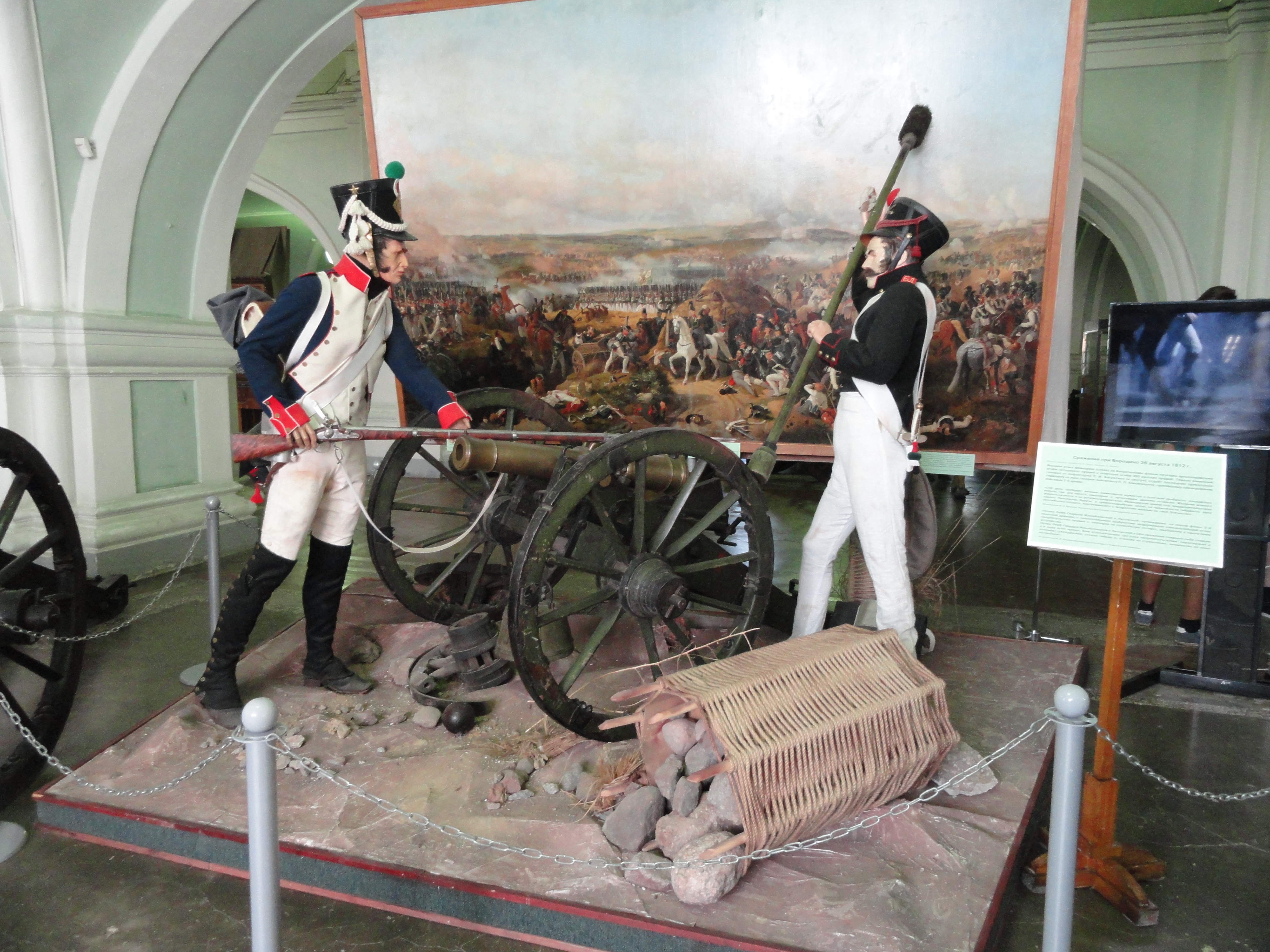 st_petersburg_2018_artillery_museum_napoleonic_borodino